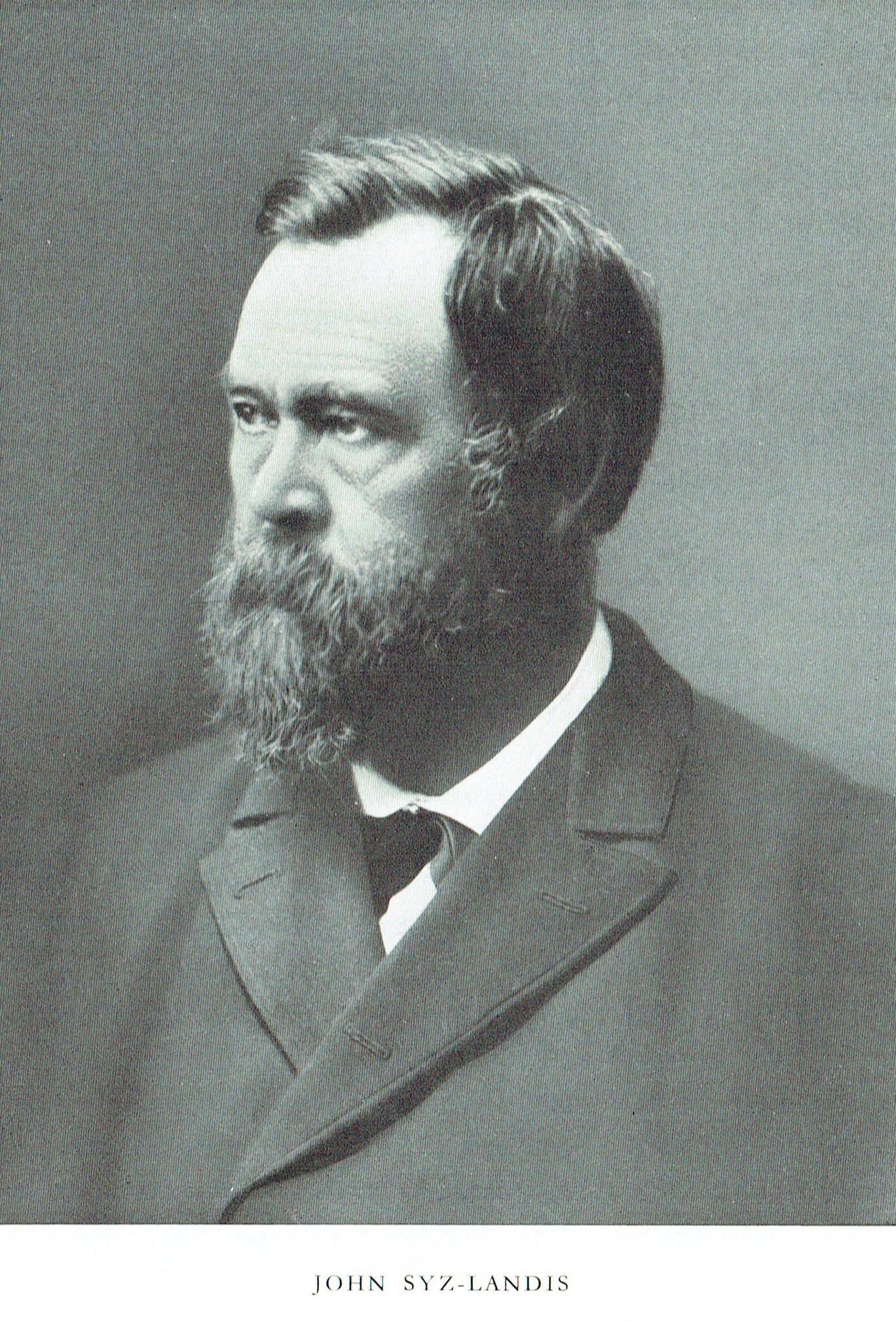 Photo of John Syz-Landis, 1st president of "Schweiz" Transport-Versicherungs-Gesellschaft and Versicherungs-Verein (predecessor of Zurich Insurance Group"; at times he was swiss counsel in Philadelphia and New York